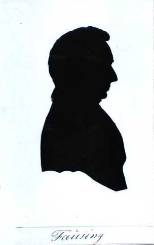 Niels Christian Fausing (1806-1857), Danish priest and silhouette artist